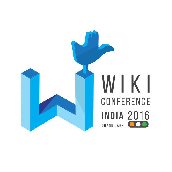 changes done in wiki conference logo 2016